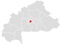 The map shows the location of the town of Ouagadougou. Ouagadougou is the capital of Burkina Faso.